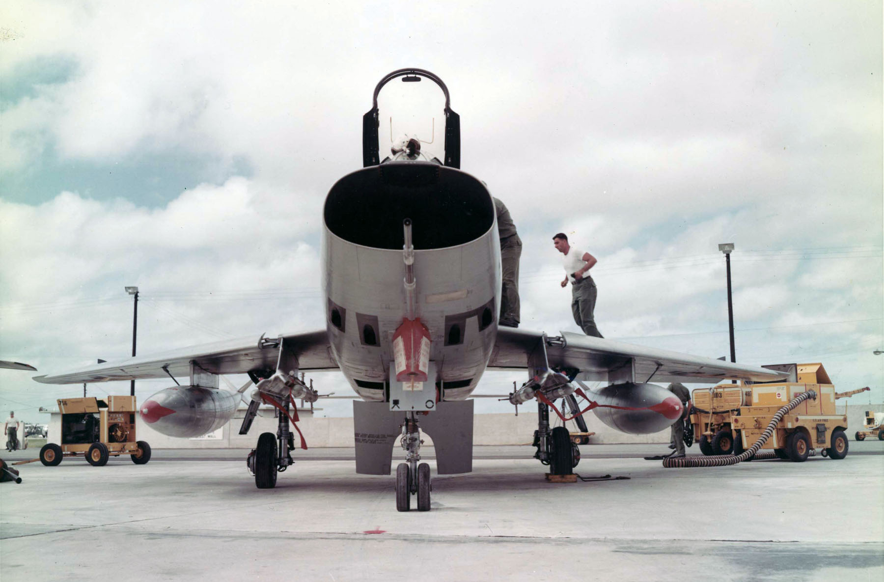 Front view of a U.S. Air Force North American F-100D Super Sabre. Note the rockets on the inner hardpoints.